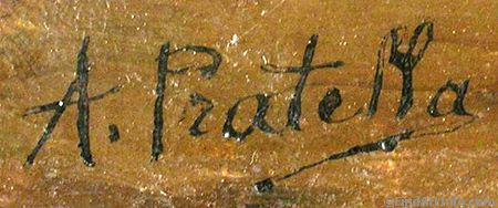 Signature of painter Attilio Pratella